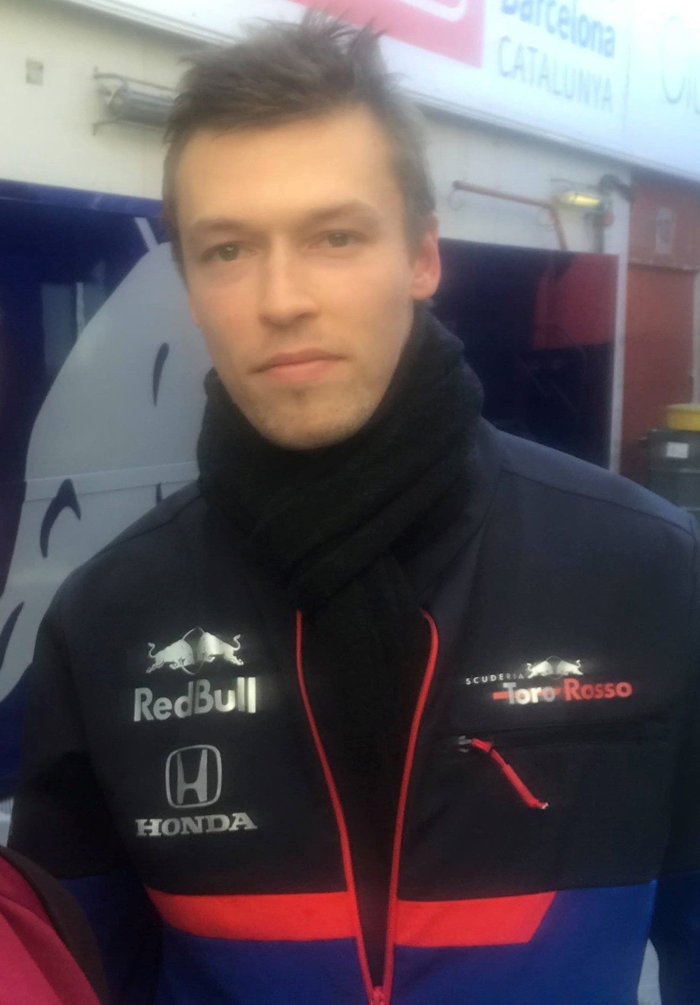 2019 Formula One tests Barcelona, Kvyat.